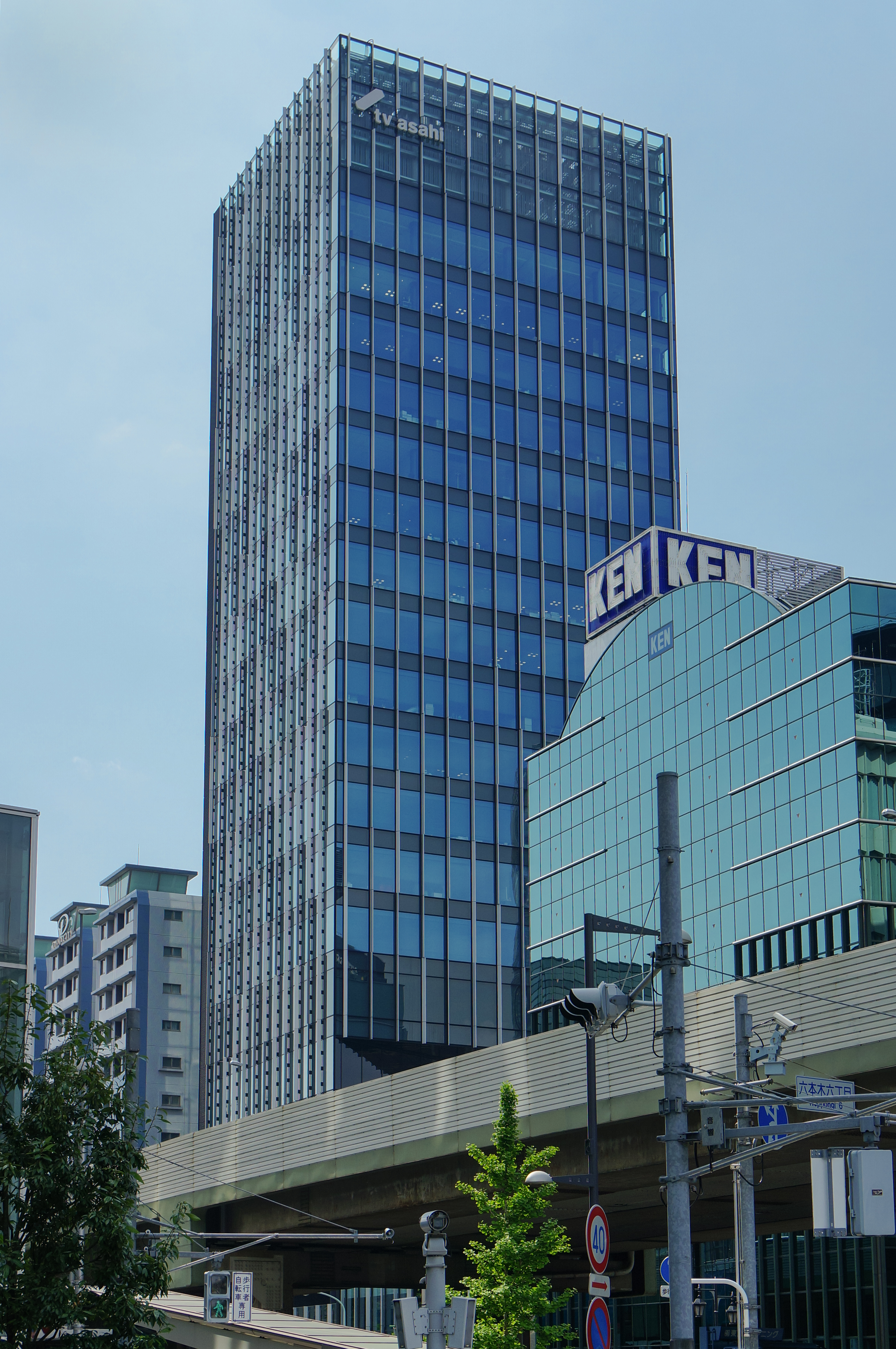 Photograph of the southeast side view of EX Tower in Minato, Tokyo, Japan.